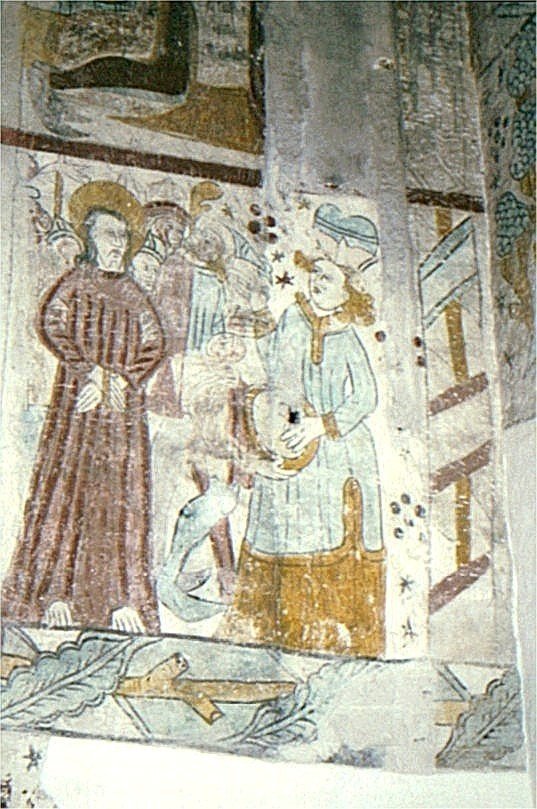 Brarup Kirke with frescoes by The Brarupmaster